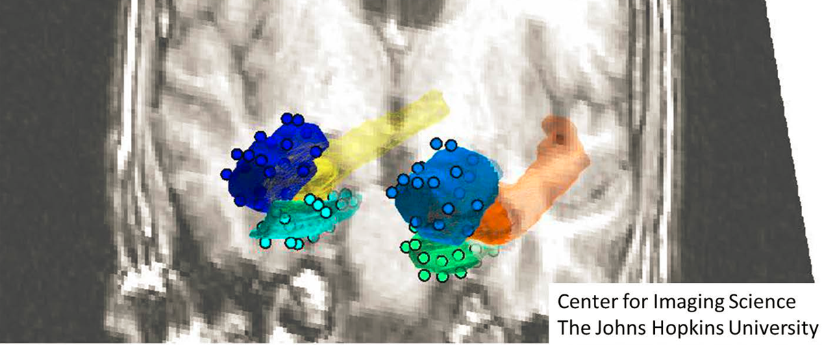 Medial temporal lobe structures amygdala, entorhinal cortex and hippocampus in MR volume with fiducials.